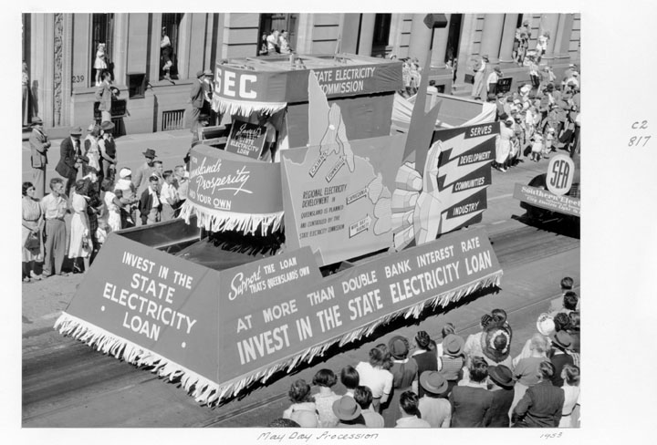 May Day Procession. (The photograph depicts the State Electricity Commission float.)